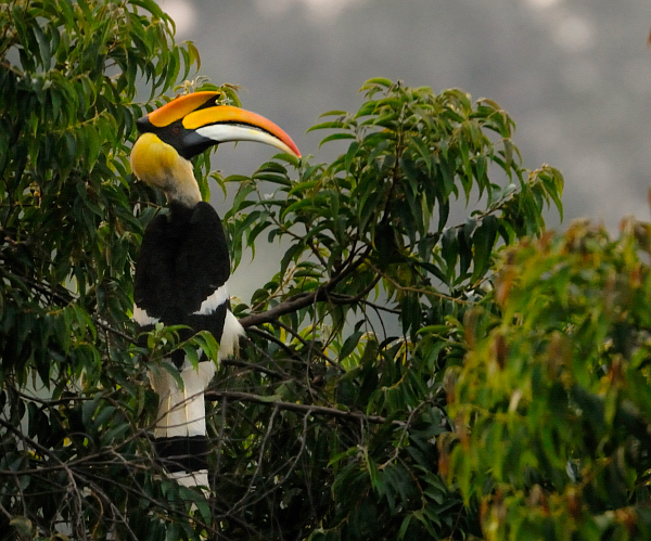 Great horbill in Mesua tree in Valparai, South India